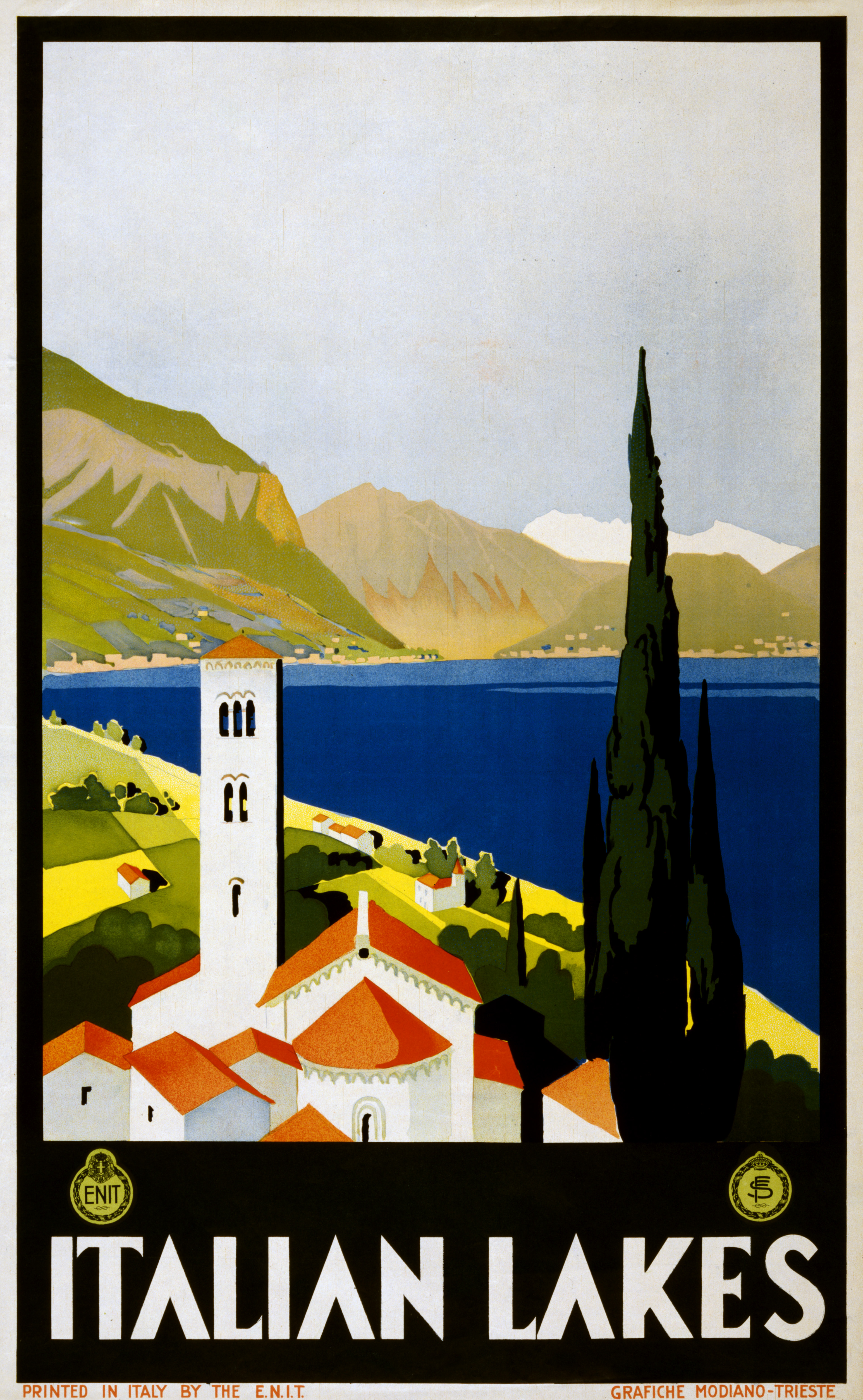 Italian Lakes. Travel poster shows unidentified lake and mountains, with the bell tower of a church in the foreground.